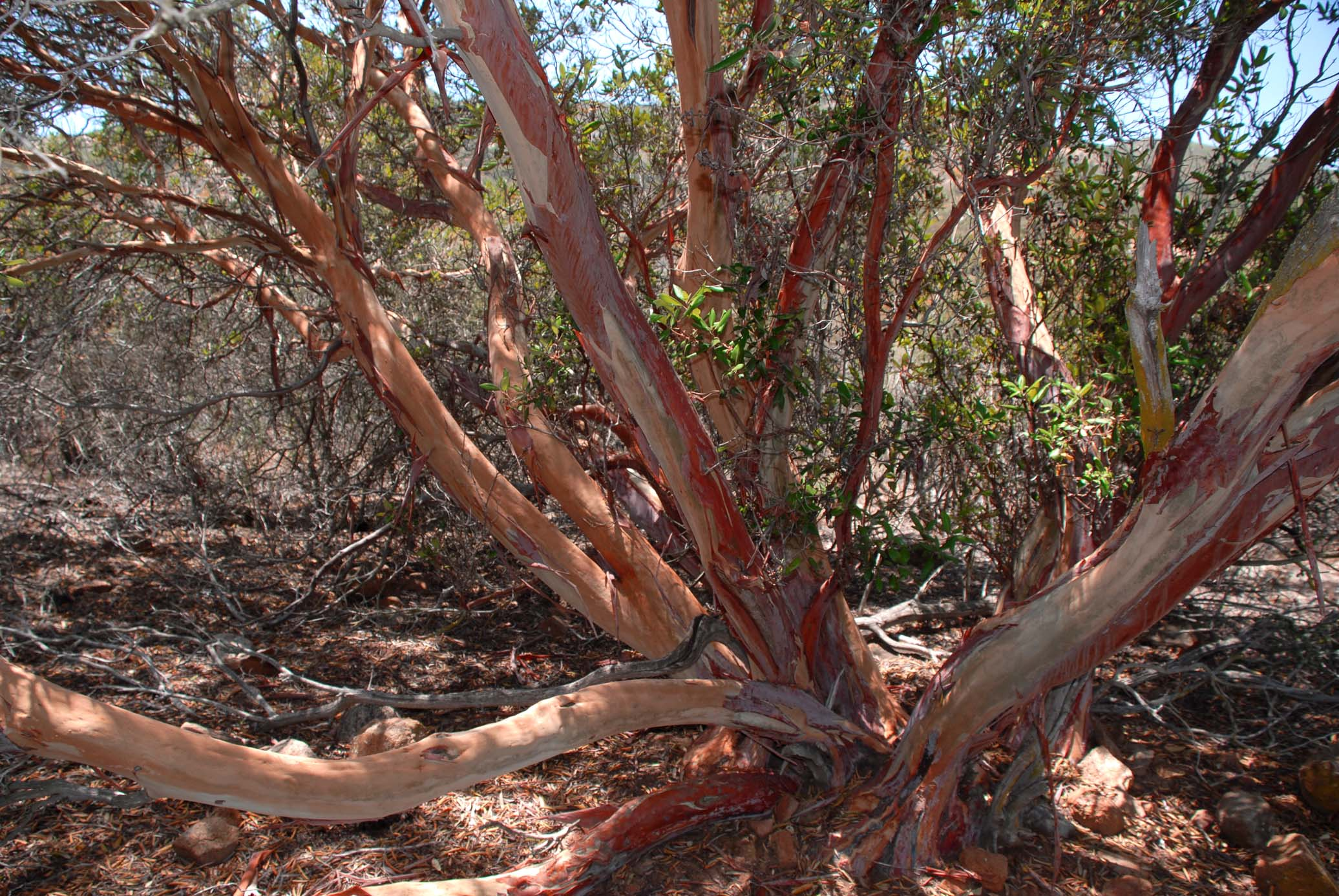 Old-growth Xylococcus bicolor — Mission manzanita. • In the Laguna Mountains, San Diego County, Southern California.